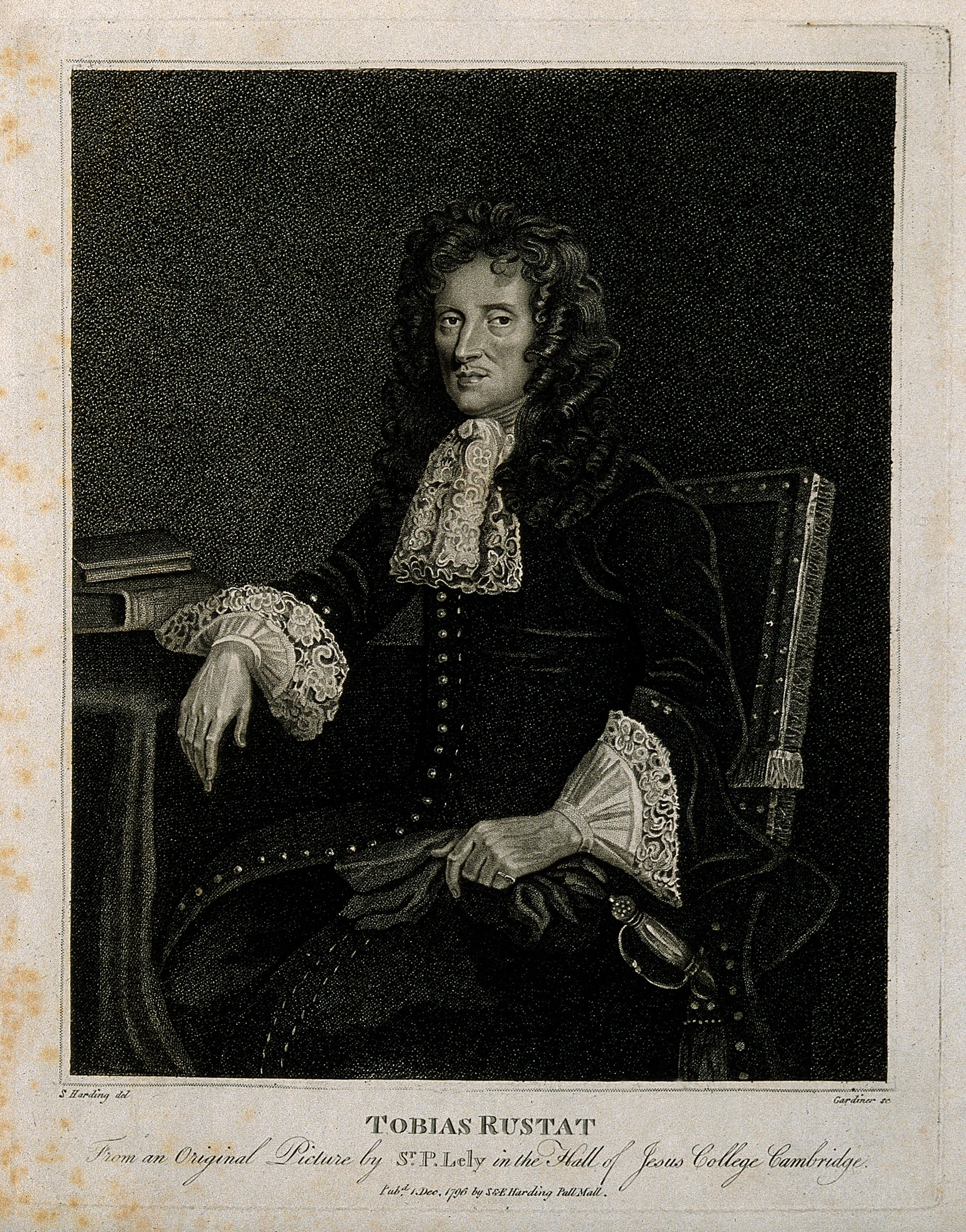 Tobias Rustat. Stipple engraving by W. N. Gardiner, 1796, after S. Harding after Sir P. Lely. Iconographic Collections Keywords: portrait prints; stipple prints; Tobias Rustat